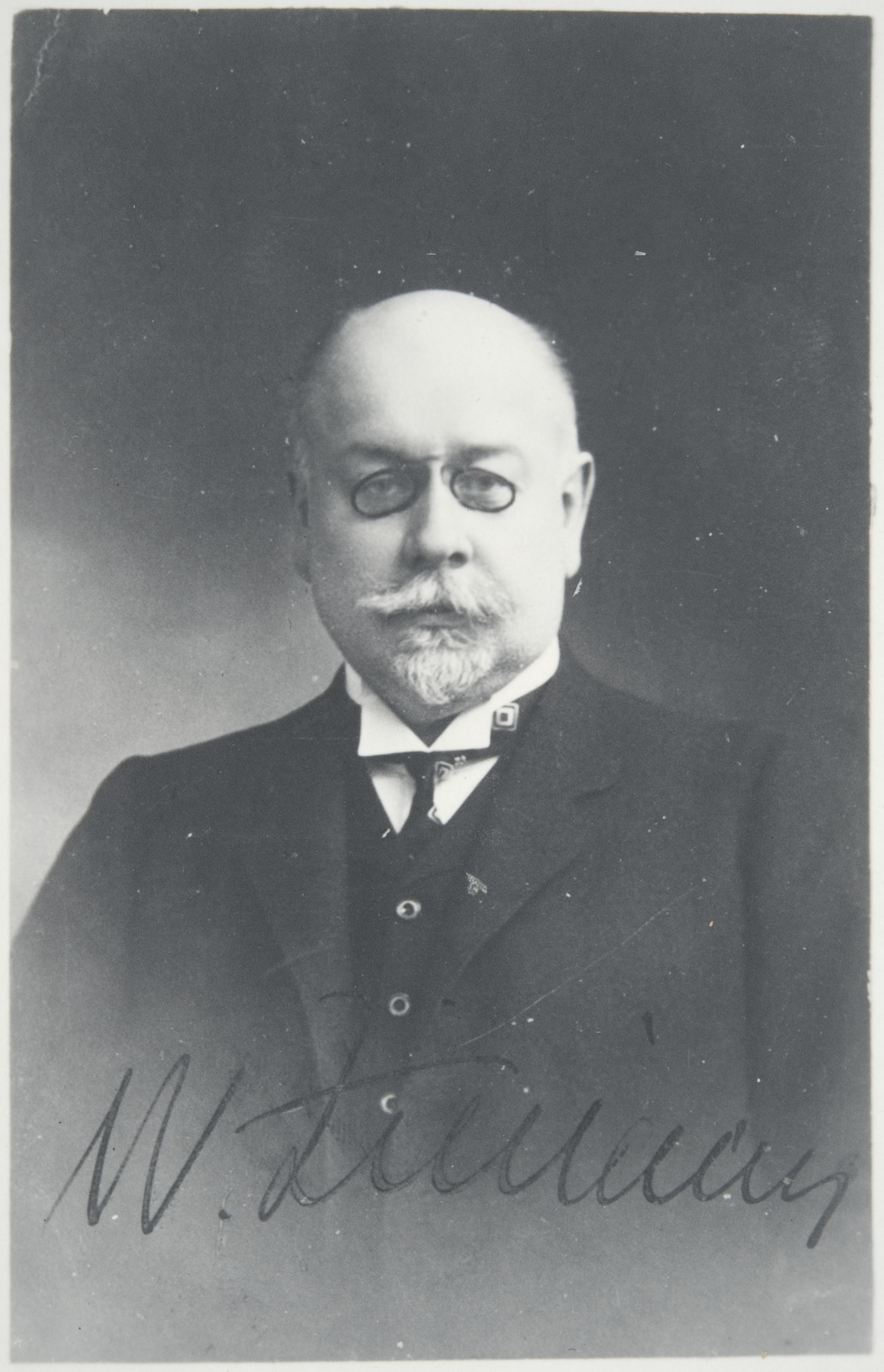 Photograph of the Finnish physician Henrik Zilliacus (1857–1919).